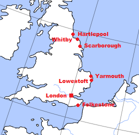 Major German bombing targets in England (both from air and sea) during the First World War. See also File:WWI German targets in England.png